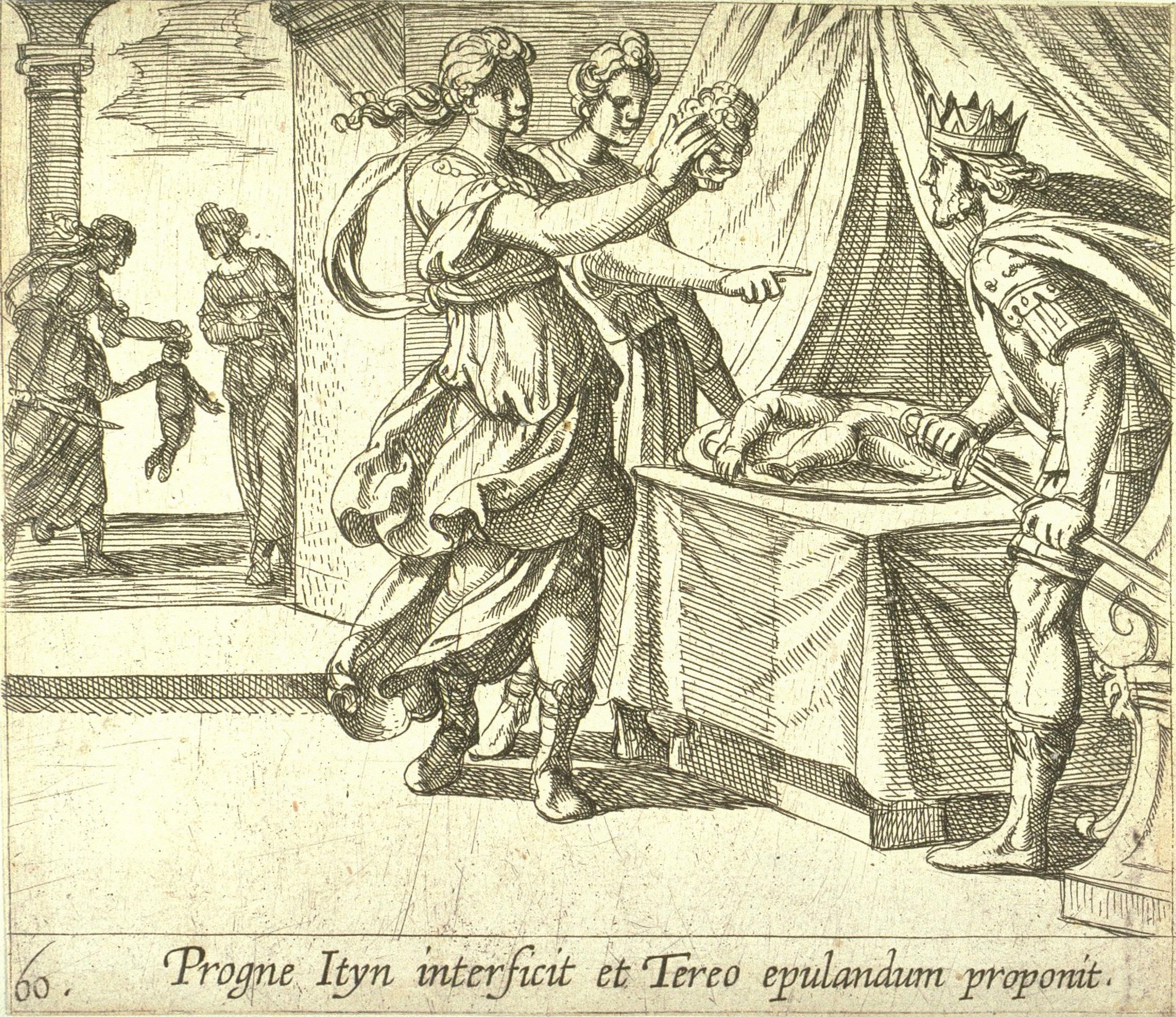 Philomela and Procne showing Itys's head to Tereus. Engraving by Antonio Tempesta for a 16th-century edition of Ovid's Metamorphoses Book VI.